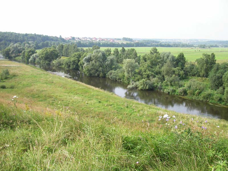 Istra River in Moscow Oblast, Russia